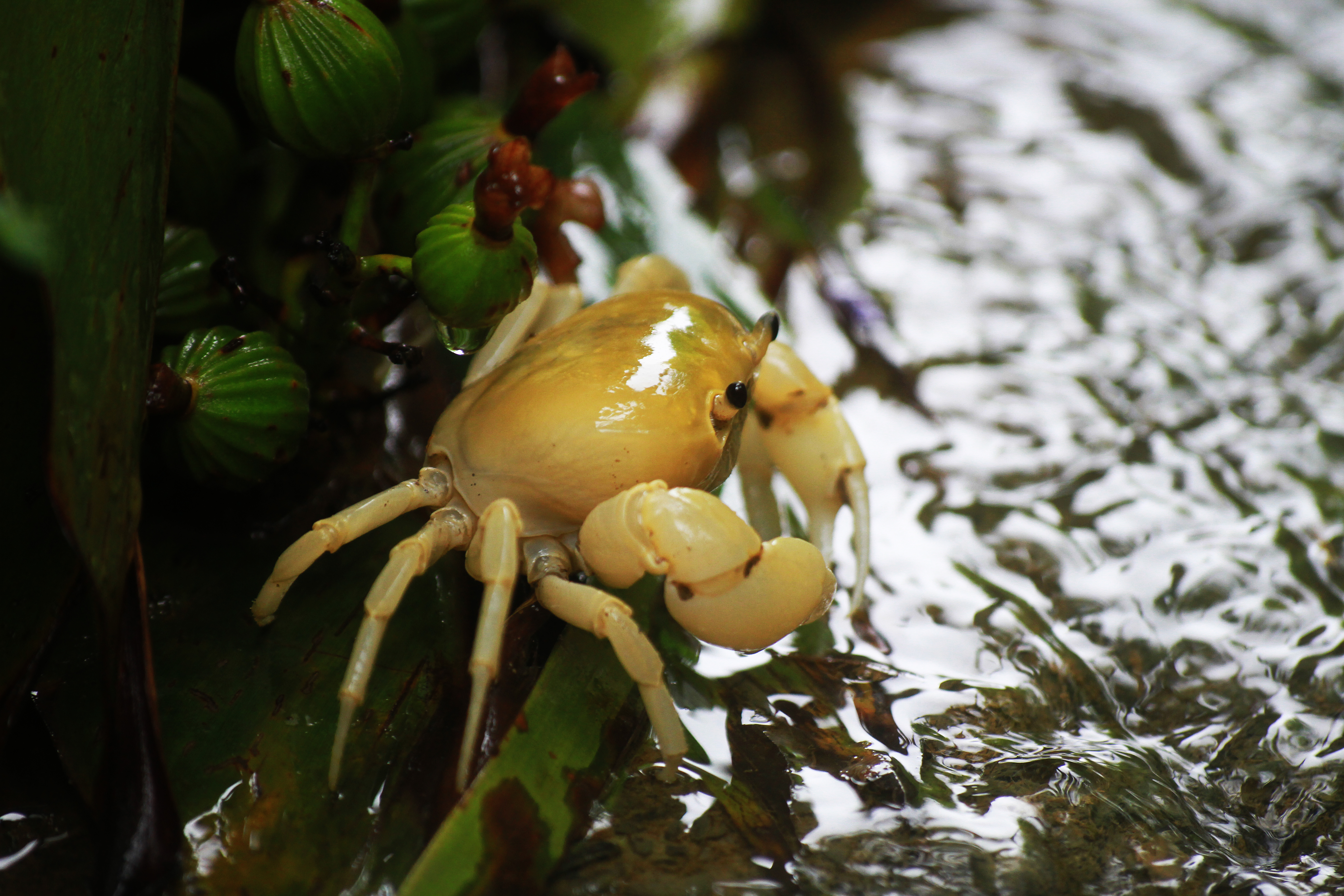 Geothelphusa albogilva